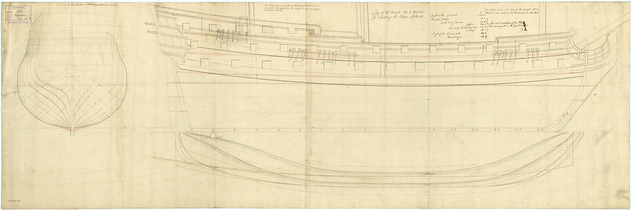 Rippon (1735); Superb (1736) Sale: 1:48. Plan showing the body plan, sheer lines and longitudinal half-breadth for Rippon (1735), a modified 1719 Eastablishment 60-gun Fourth Rate. Alterations, dated 22 May 17323, included the masts, quarterdeck ports and roundhouse bulkhead. The plan also illustrates the lines (in red) for the Superb (1736), a 1733 Establishment 60-gun Fourth Rate, as sent from Plymouth Dockyard. NMM, Progress Book, volume 2, folio 164 states that 'Superb' (1736) arrived at Plymouth Dockyard on 12 October 1741 and was docked on 25 March 1742. She sailed on 27 May 1743. RIPPON 1735